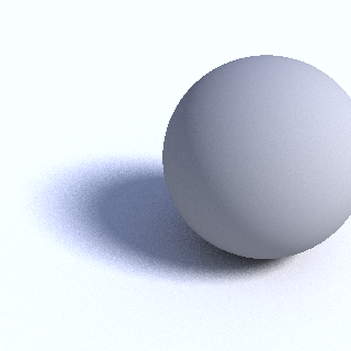 A sphere ray traced with an area light source illuminating the scene. Notice that the edge of the shadow, or penumbra, is "soft" and smeared out. Within the penumbra, the light source is only partially obscured. Ray traced with a home-built Java ray tracer.